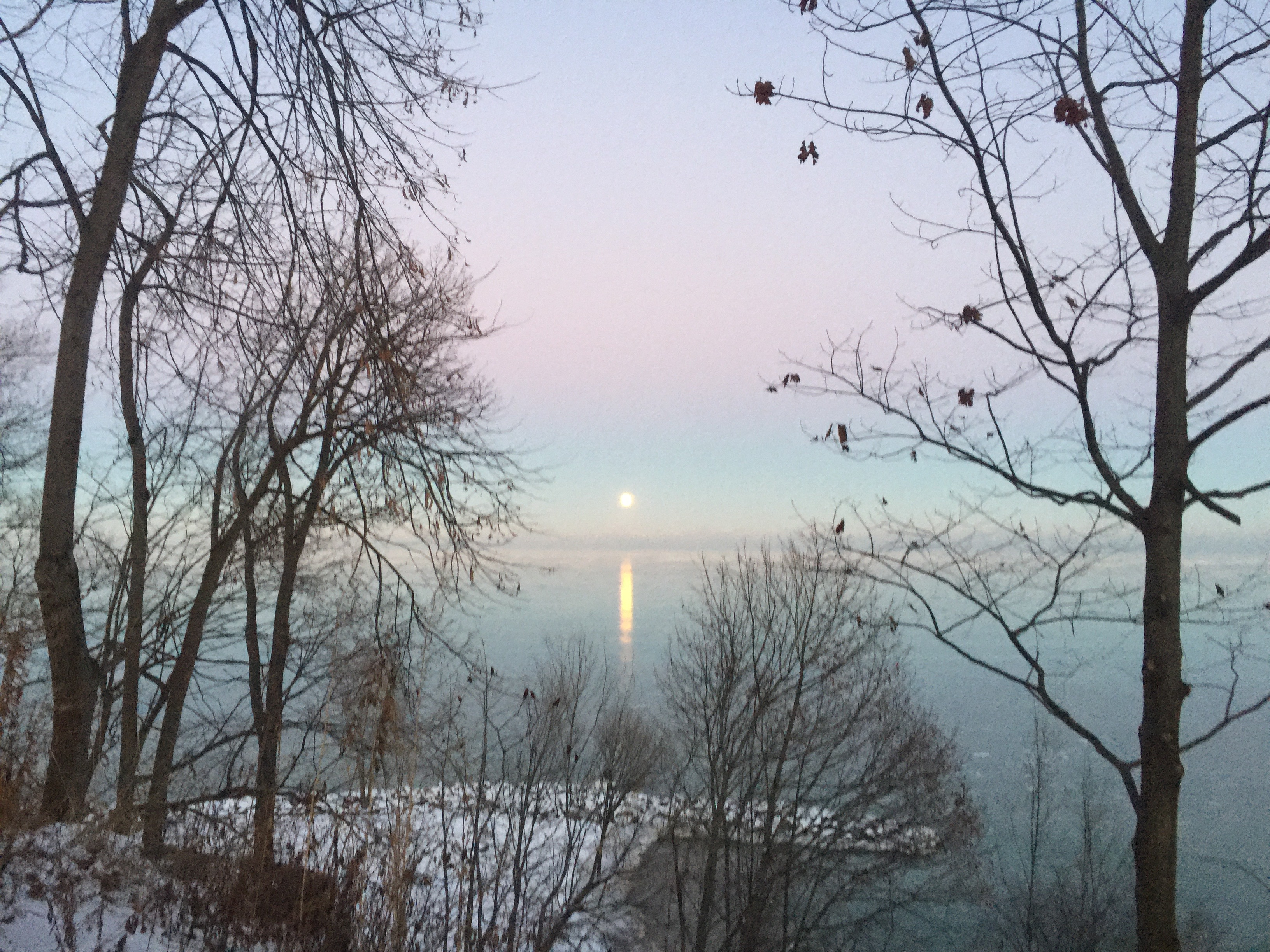 Luna rises over Lake Michigan on January 1, 2018.